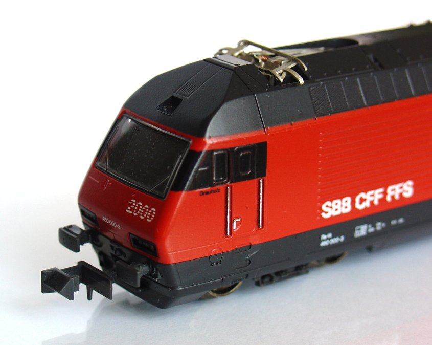 N scale (1:160) Kato model number 13709-2, model of SBB Re 460 000-3 'Grauholz'